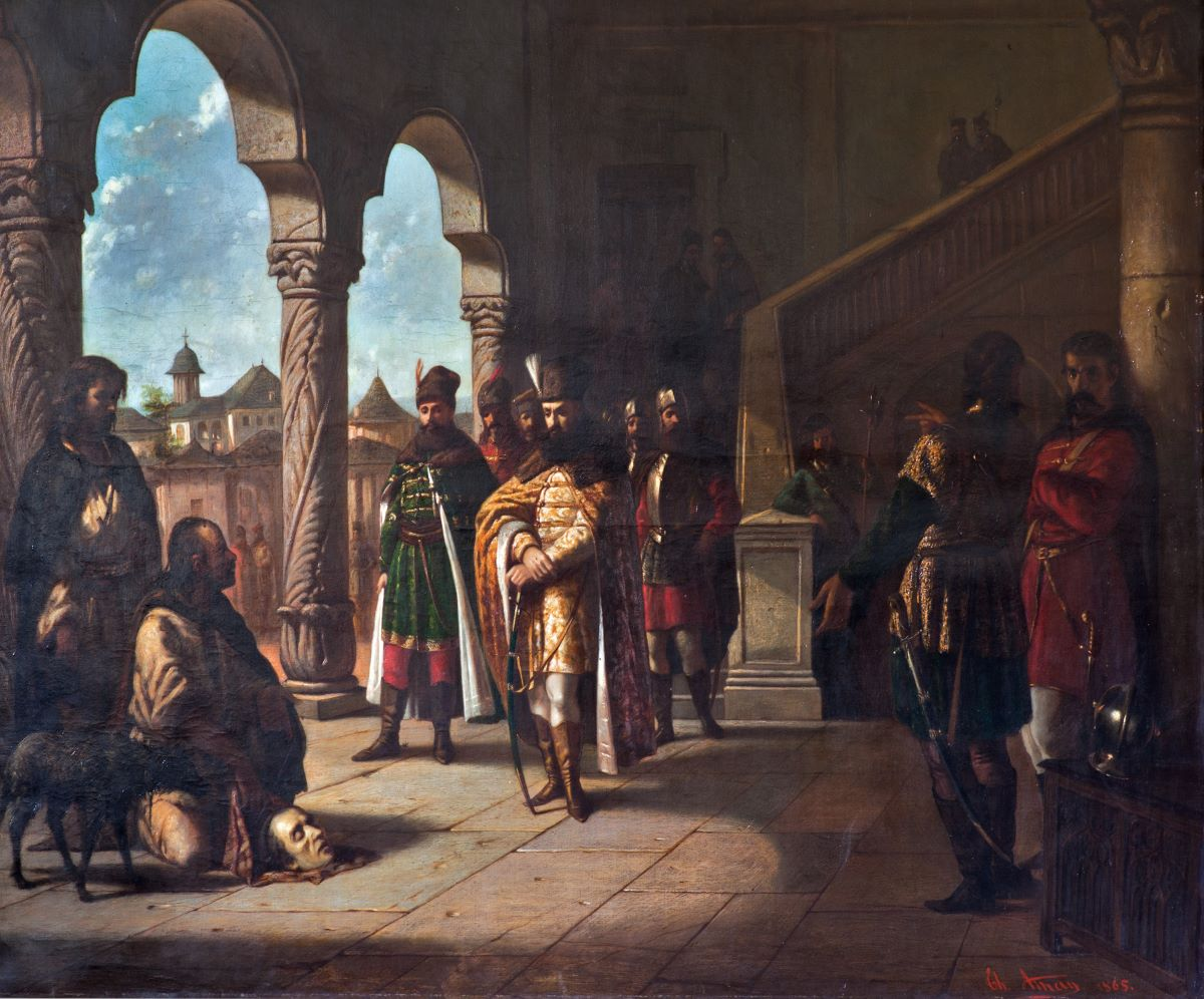 Seklers bring the head of cardinal Andrew Bathory to Mihai Viteazul